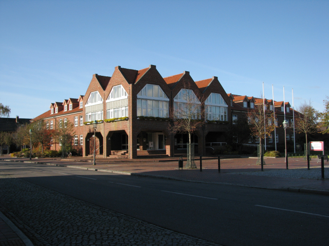 City-Hall of the municipality of Leck (Nordfriesland)